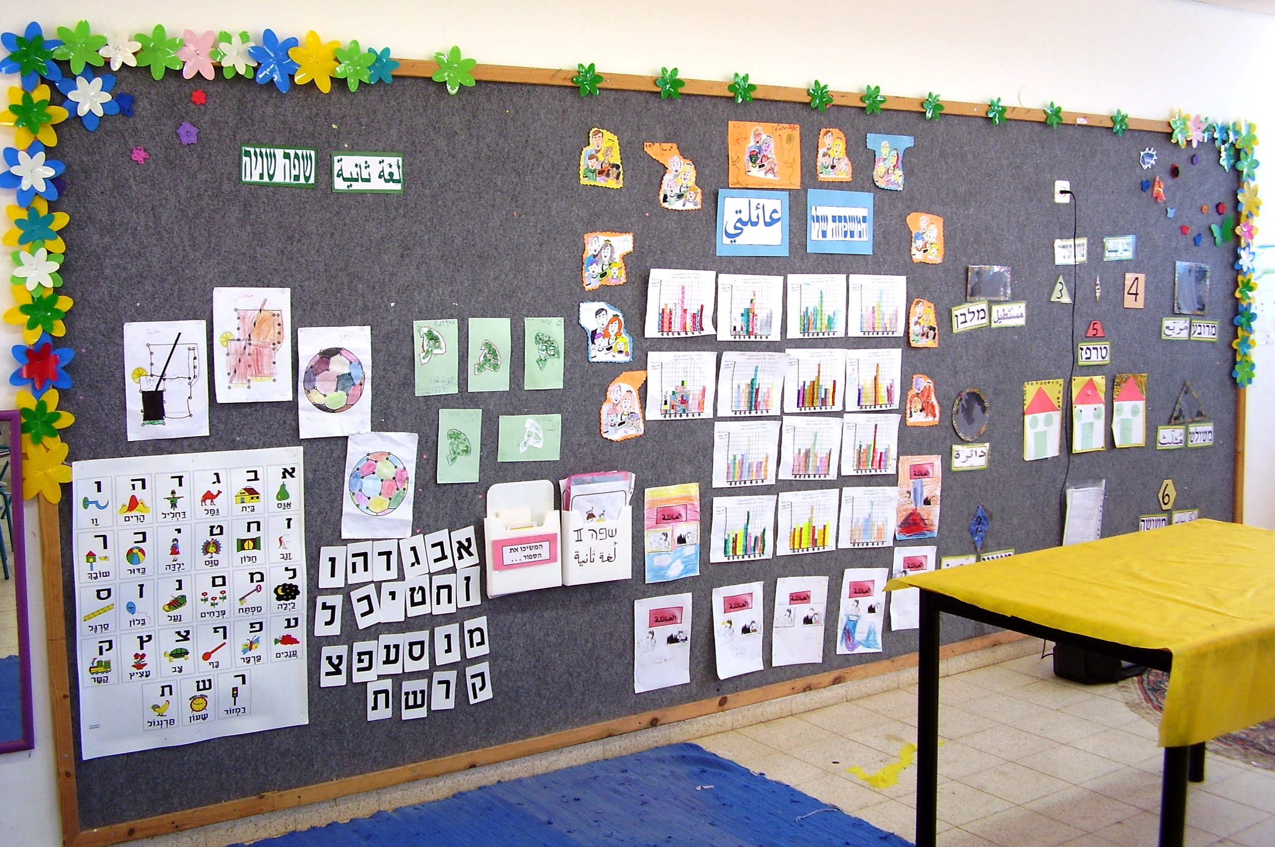 A classrom wall at Hand in Hand's "Bridge over the Wadi" School in Kafr Kara, Israel.